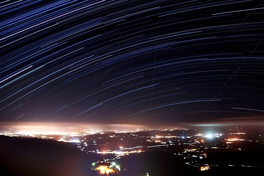 Night landscape from the top of the Monumental Vineyard